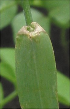 (Oortjes bij rogge) Auricles by Secale cereale